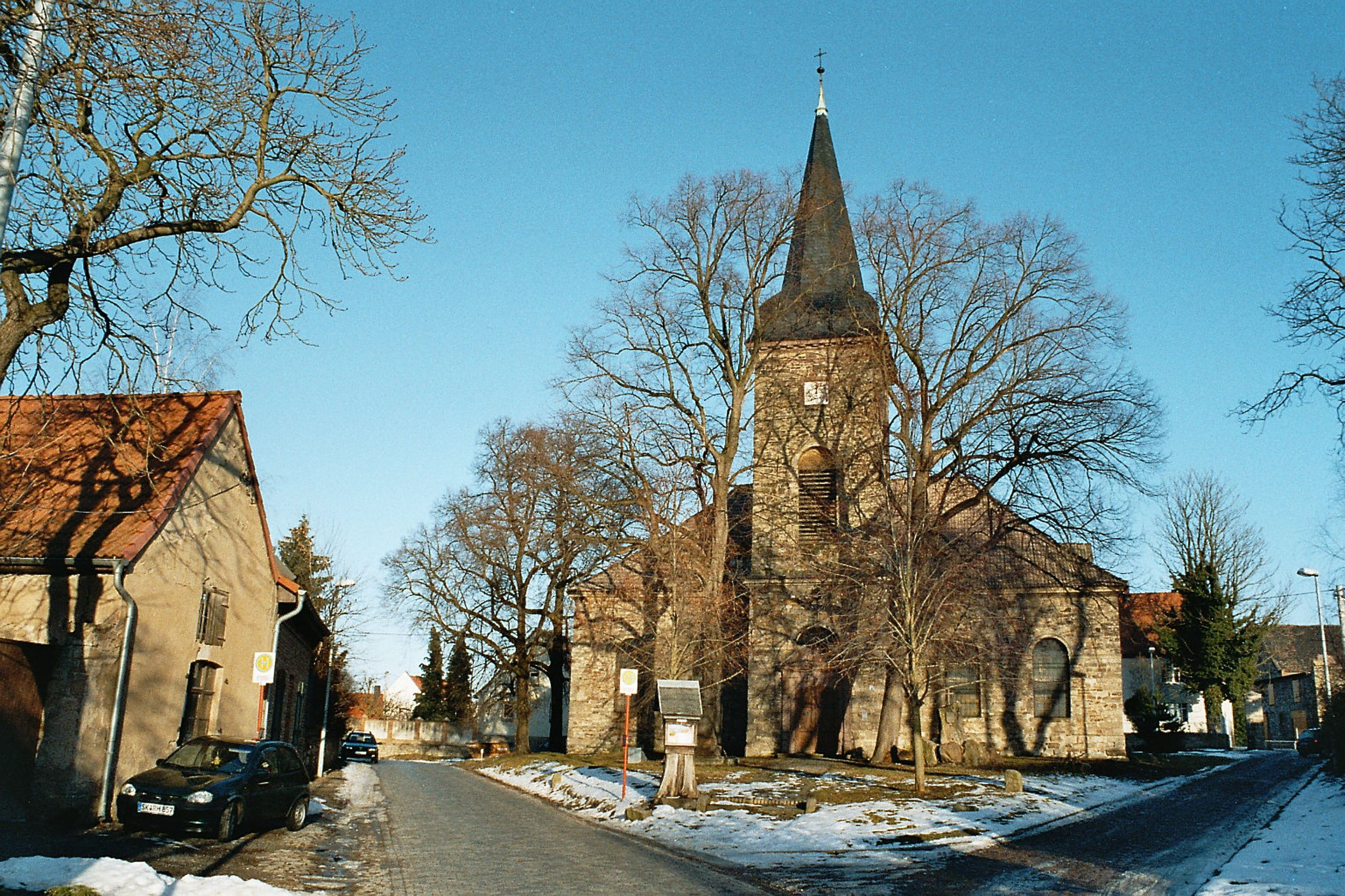 The church St.John